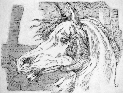 Drawing, Lorenz Leisner